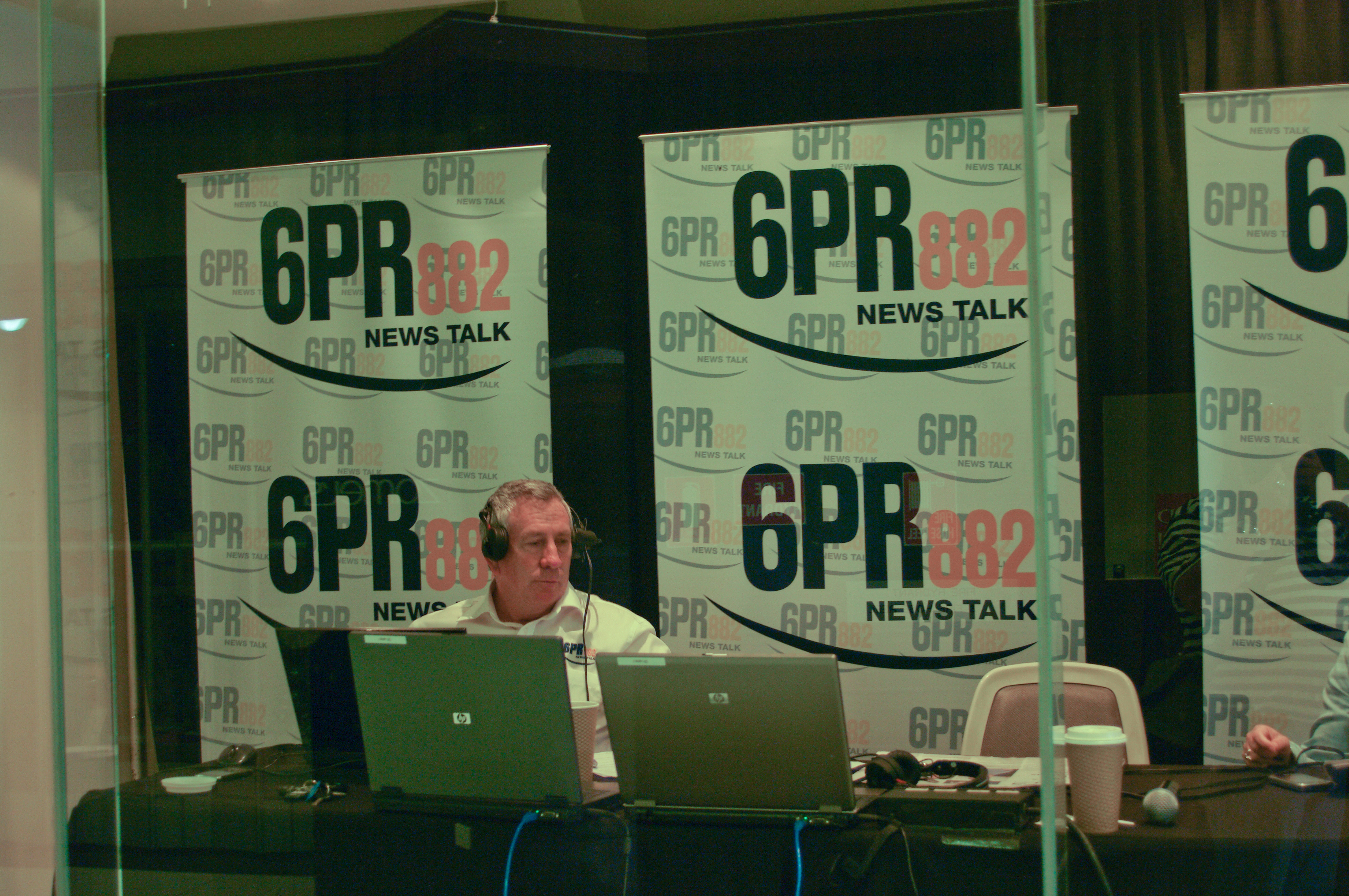 CHOGM 2011, 6PR broadcasting from near the protestors, presenter is Harvey Deagan